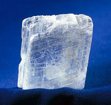 Pure fibrous gypsum selenite showing its translucent property